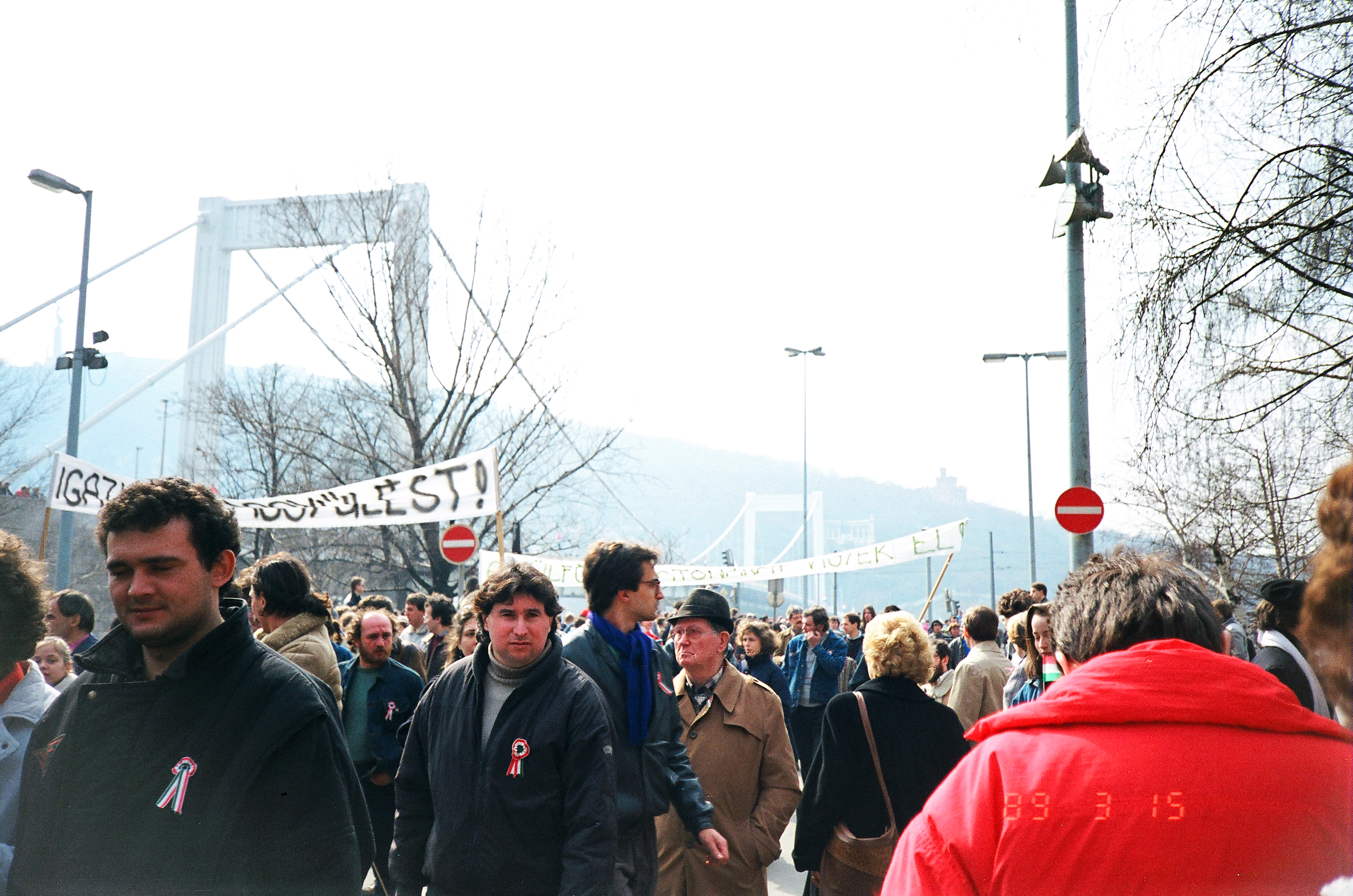 Live on the 15th of March, 1989. Hungary, Budapest, the statue of Petőfi Sándor, Szabadság square, Kossuth square, Pest bridgehead of the Margaret bridge. After decades of forbidden national days, on the 15th of March, 1989, the communist regime of Hungary allowed people to celebrate 1948 –1949 revolution. Parallel with the state celebration at the National Museum, independant organisations called the public to gather at the statue of Petőfi Sándor. Published under Creative Commons in the Metapolisz DVD line. All of the photos and vids in the Metapolisz DVD line are under Creative Commons and can be used even for commercial – for profit – purposes. Recommended Citation Derzsi Elekes Andor: Metapolisz DVD line Megjelent Creative Commons alatt a Metapolisz sorozatban. A Metapolisz sorozat valamennyi képe és filmje Creative Commons alatti valamint kereskedelmi - for profit - célra is felhasználható. Ajánlott hivatkozás: Derzsi Elekes Andor: Metapolisz DVD line Tags: Hungary Magyarország 1989 March the 15th Budapest change of the system Bégány Attila Derzsi Elekes Andor Metapolisz Nemzeti Ünnep – Budapest, 1989.03.15 A felvétel 1989. március 15 –én, szerdán készült, Budapesten, a Petőfi szobornál (1, 2), a Szabadság téren (3, 4), a Kossuth téren (5, 6) illetve a Margit híd pesti hídfőjénél (7). A cellulóz film jpg formátumra szkennelt előhívása. Plakátok: 1. IGAZ…………..ÉST !, 2………MEDIKUS CSOPORT, 3. RENDŐRÁLLAM HELYETT JOGÁLLAMOT ! 4. BO……..hogy Források: Petőfi szobor, Szabadság tér: MDF fáklyás felvonulás: Állambiztonsági jelentés: (Napi Operatív Információs Jelentés) 23. oldal 1989. március 15 – Az ellenzék előszőr mutatta meg az erejét Március 15-e a magyar fővárosban Címkék: Nemzeti Ünnep 1989. március 15 Budapest Magyarország Petőfi szobor Szabadság tér Kossuth tér Margit híd rendszerváltás Bégány Attila Derzsi Elekes Andor Metapolisz